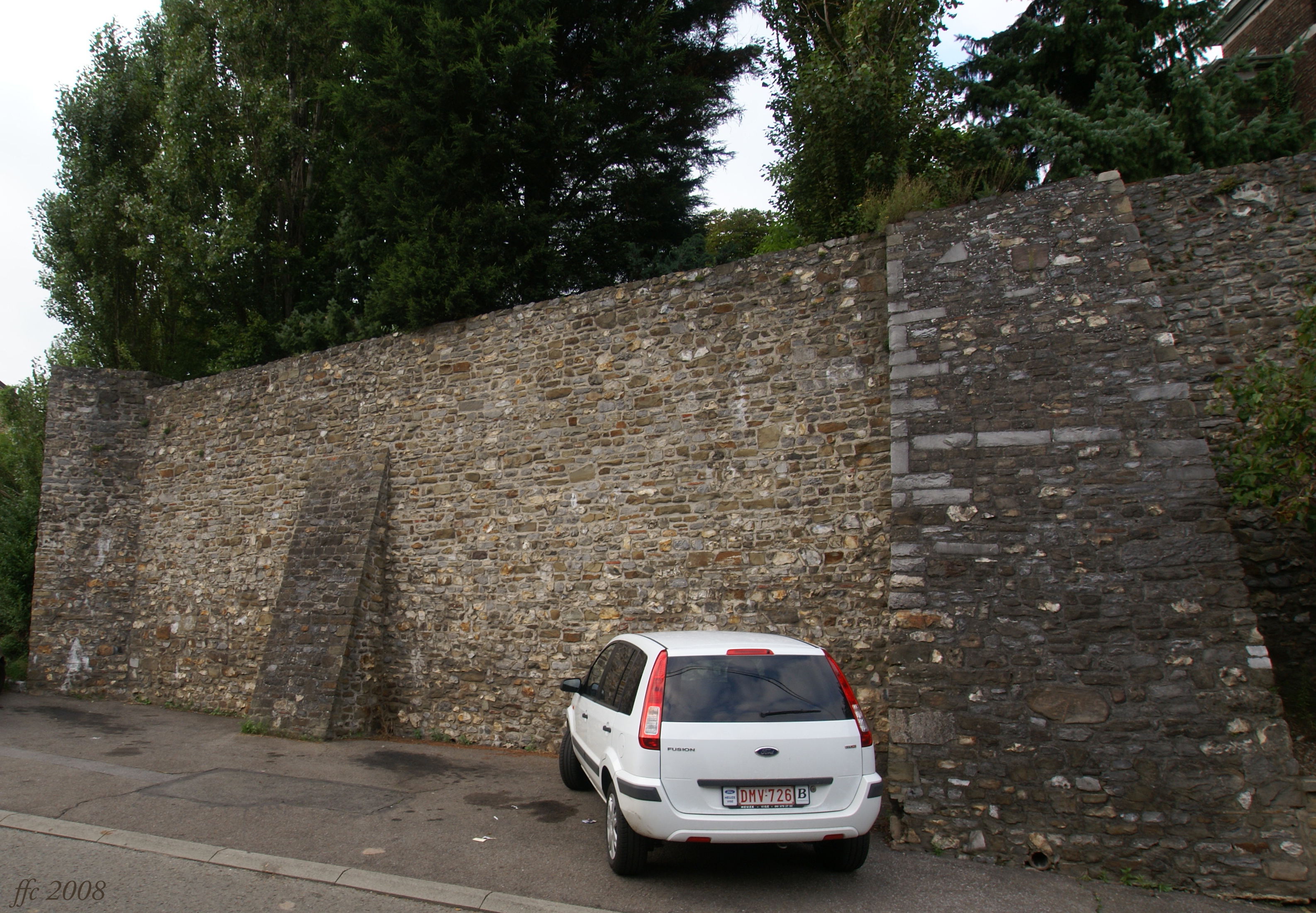 Haccourt (Belgium): Former castle's walls